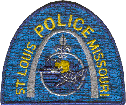 Image of the St. Louis Police Department patch. Made with Photoshop.